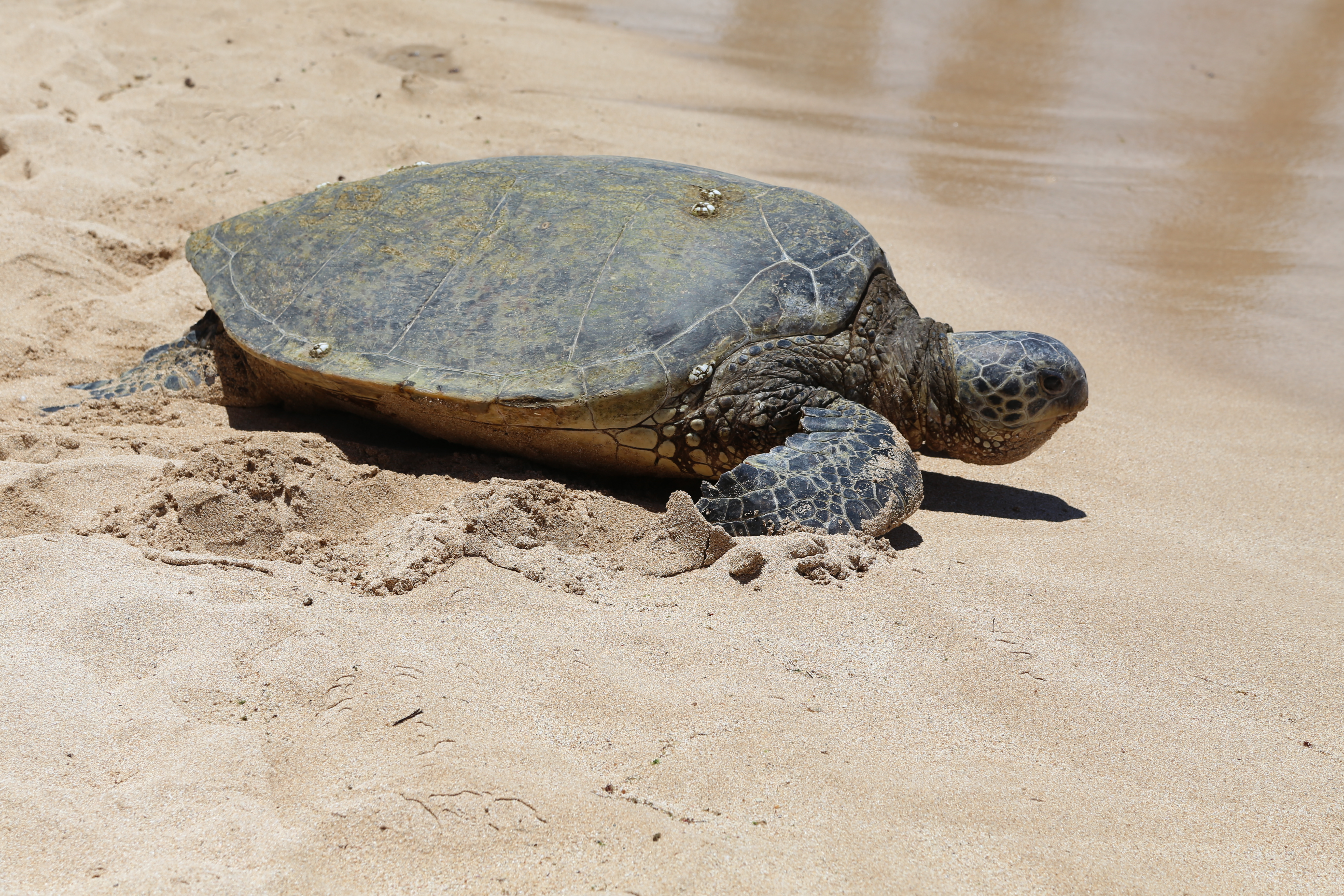 Green sea turtle (Chelonia mydas) heading back toward the sea from Turtle Beach, north shore Oahu, Hawaii.